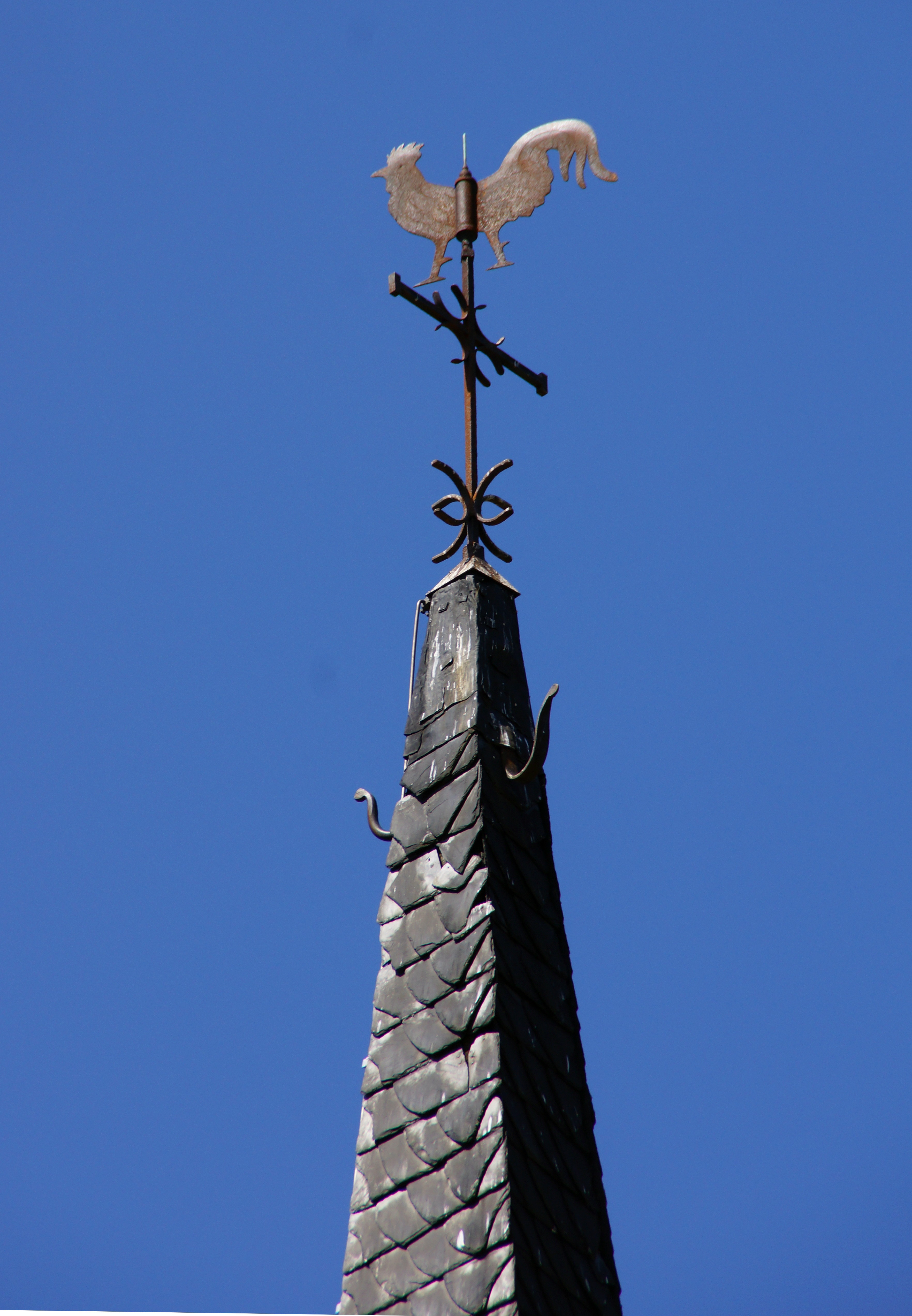 Catholic parish church of St. Margaretha in Vussem, Rosenweg: cross and weather cock on the bell tower.